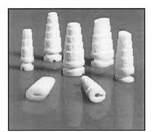 M. Cecilia, C. Nelson, J. Filho, L. Guimaraes, Mechanical properties of alumina-zirconia composites for ceramic abutments, Vol. 7, No. 4, (2004) pp 643-649